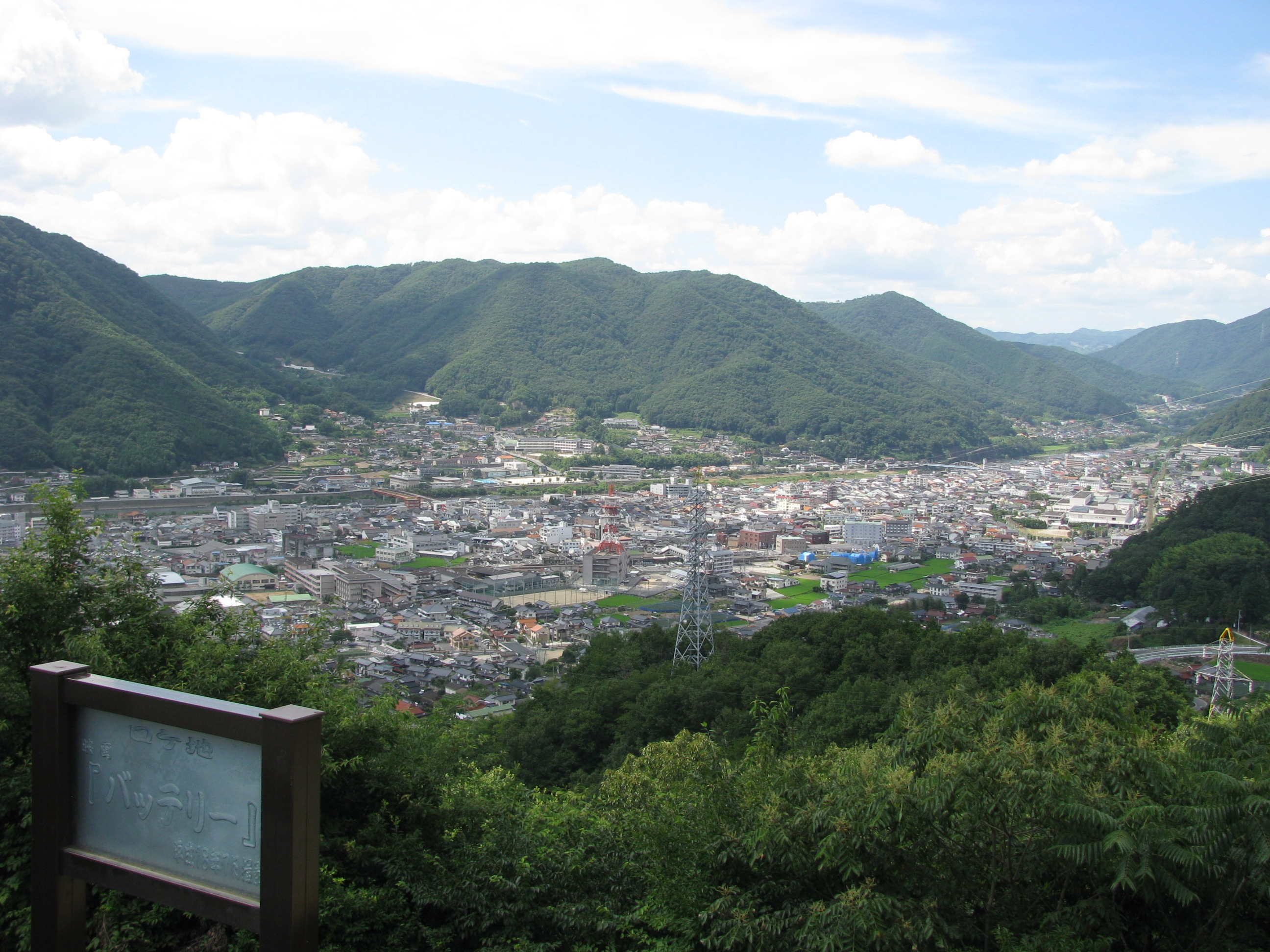 The Takahashi, located in Okayama Prefecture, Japan.